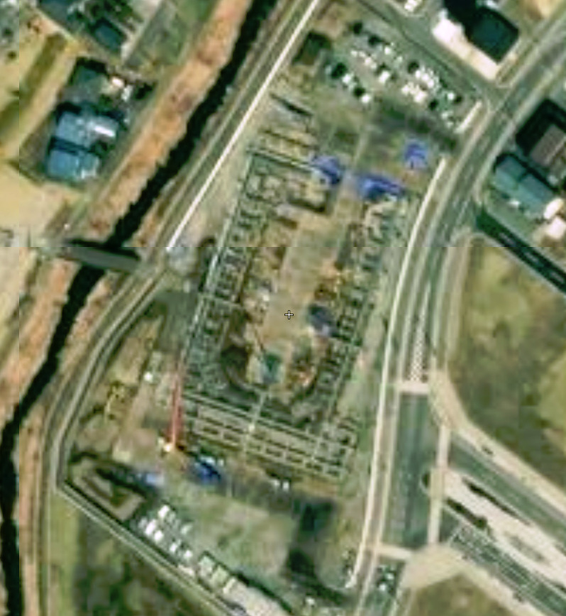 Flat Arena